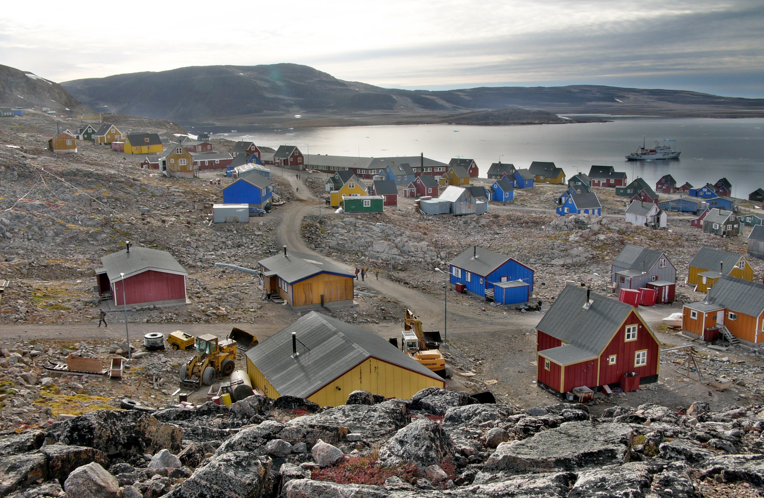 Ittoqqortoormiit (Scoresby Sund, East Greenland, view from heli landing point)